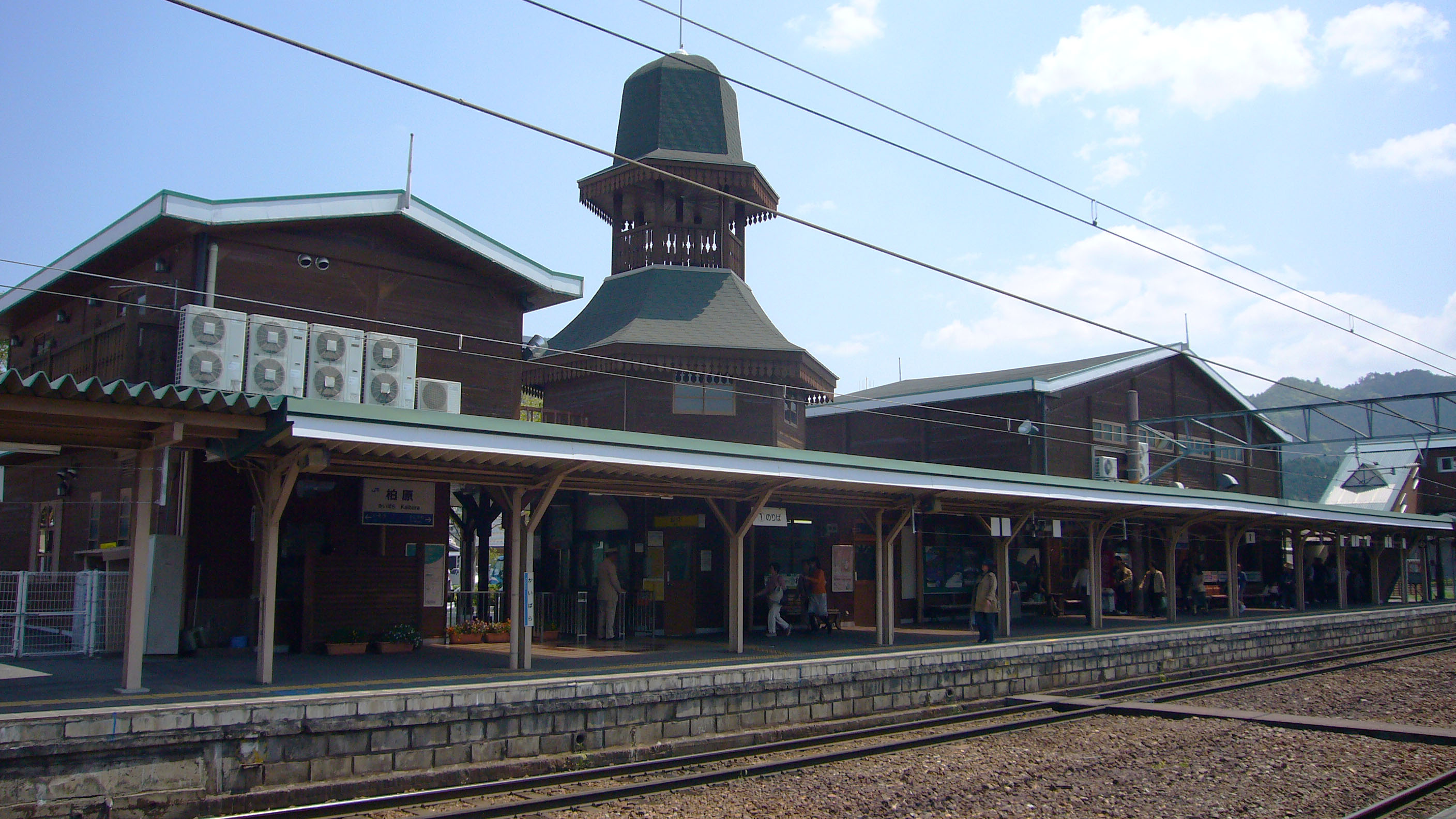 JR Kaibara Station in Tamba, Japan